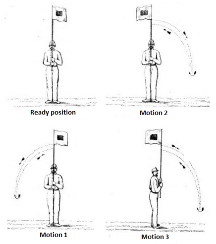 Wigwag signalling motions.